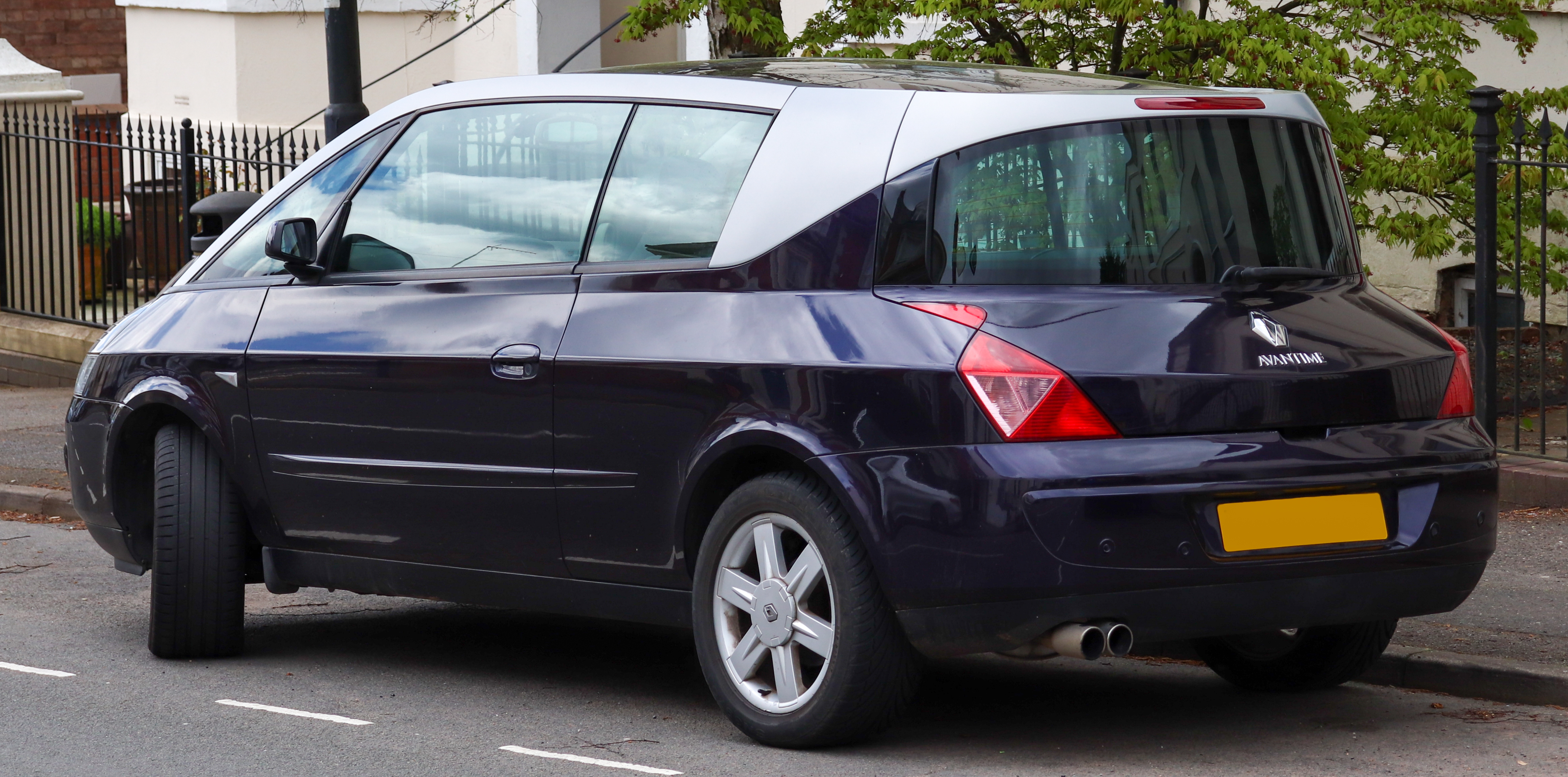 2002 Renault Avantime Privilege 3.0 Rear Taken in Leamington Spa